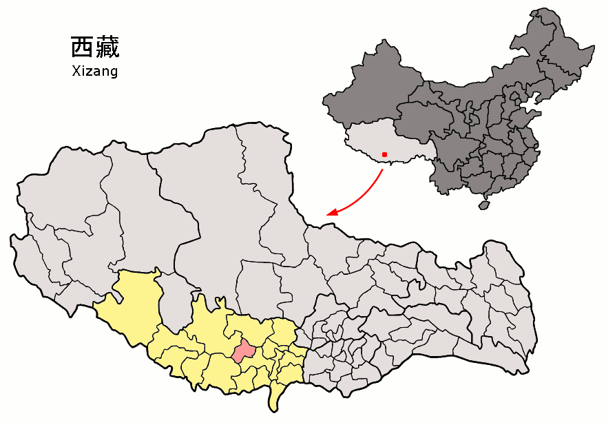 Location of Lhazê County (pink) and Xigazê Prefecture (yellow) within Tibet (Xizang) autonomous region of China